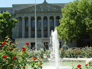 California State Library (Library/Courts Building I)